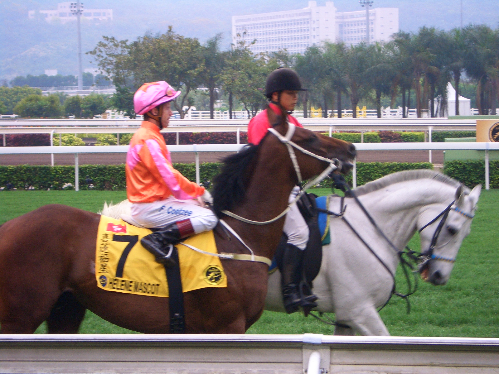 Felix Coetzee on Helene Mascot on 2008 QEII Cup. Helene Mascot teamed with Coetzee to win the 2004, $2,057,600 Hong Kong Derby at Sha Tin racecourse.